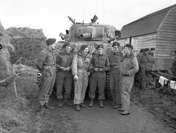 Personnel with a Sherman tank of No.1 Squadron from the Gorvernor General's Foot Guards, Bergen op Zoom in the Netherlands on 6 November 1944